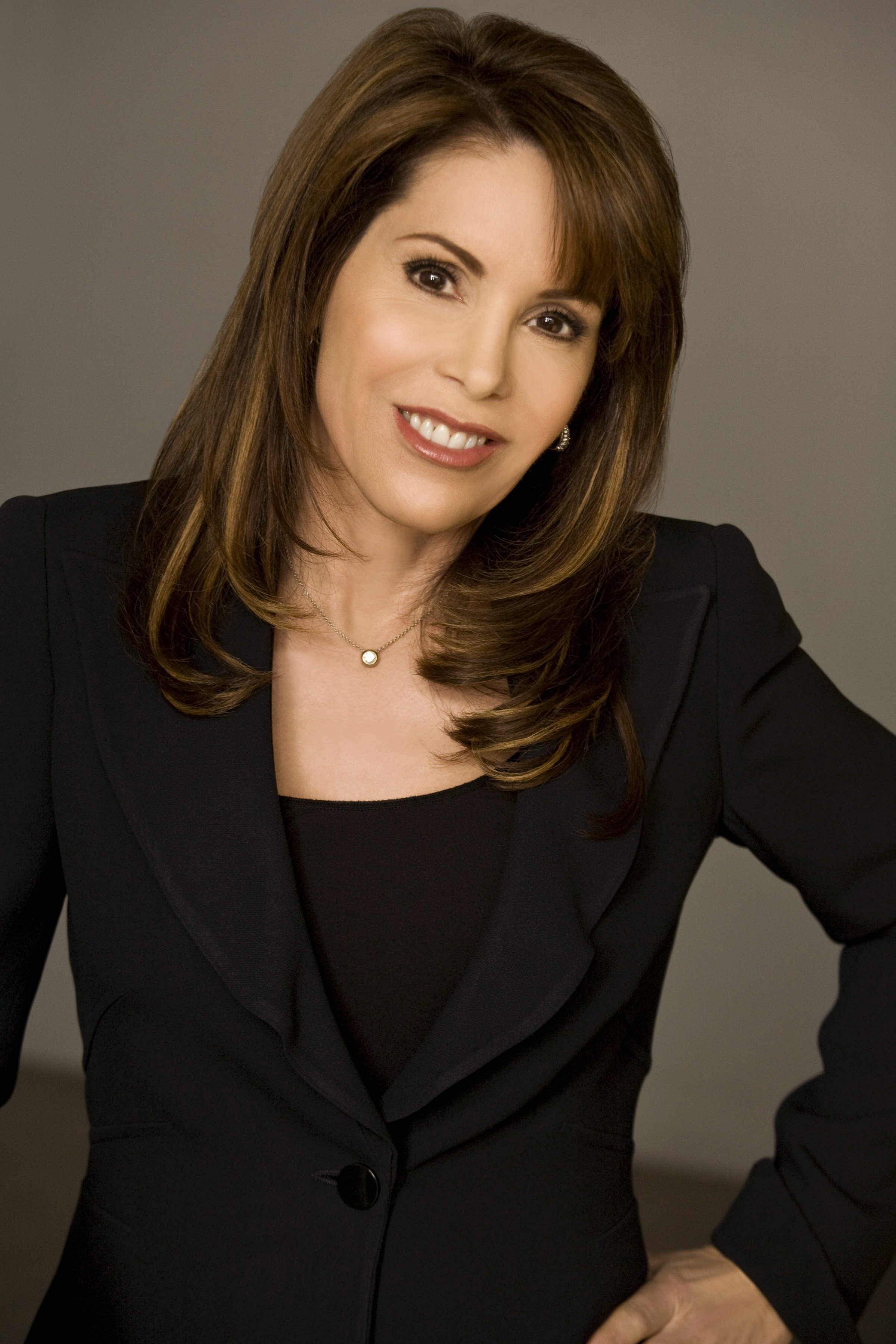 Headshot of Maddy Dychtwald from 2010)